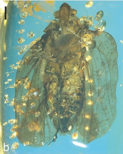 Mimaplax ekrypsan Photographs of amber inclusion: in ventral view (b) scale bar 1 mm